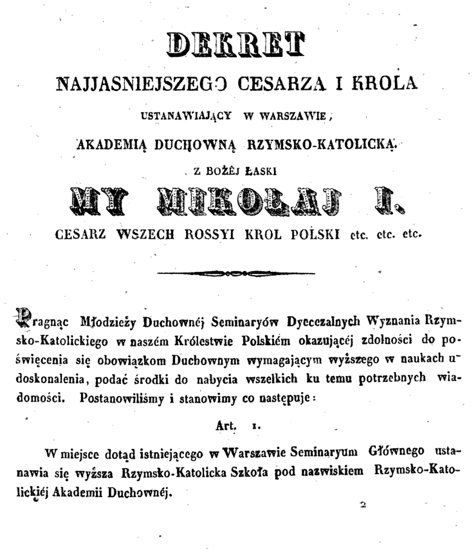 Decree of Emperor Nicholas I on the establishment of the Warsaw Roman Catholic Theological Academy